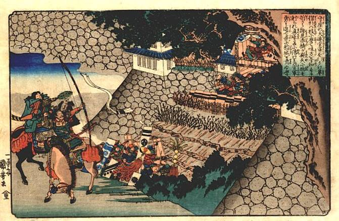 Prince Shôtoku directing the attack on Moriya’s castle